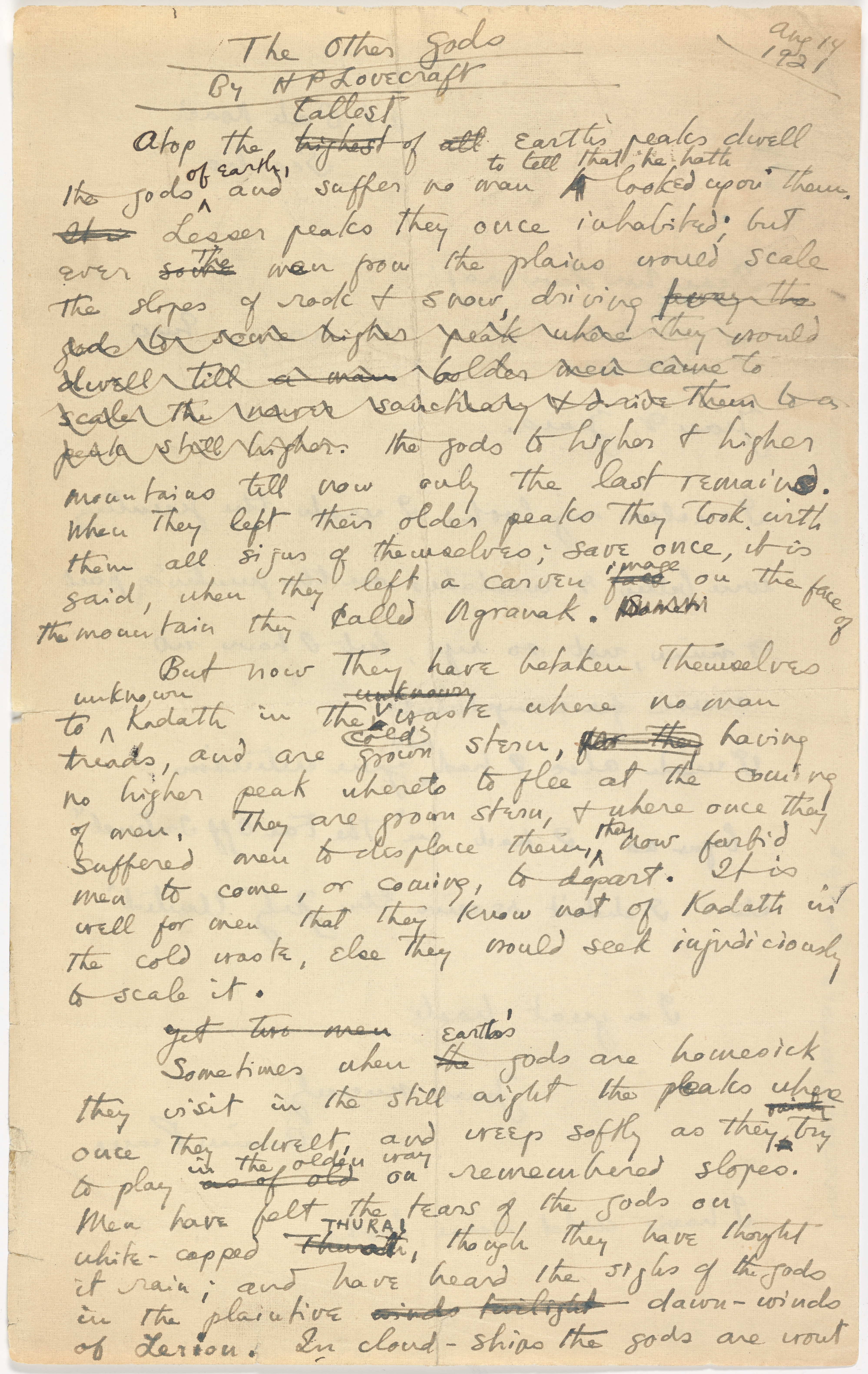 First page of the manuscript The Other Gods.